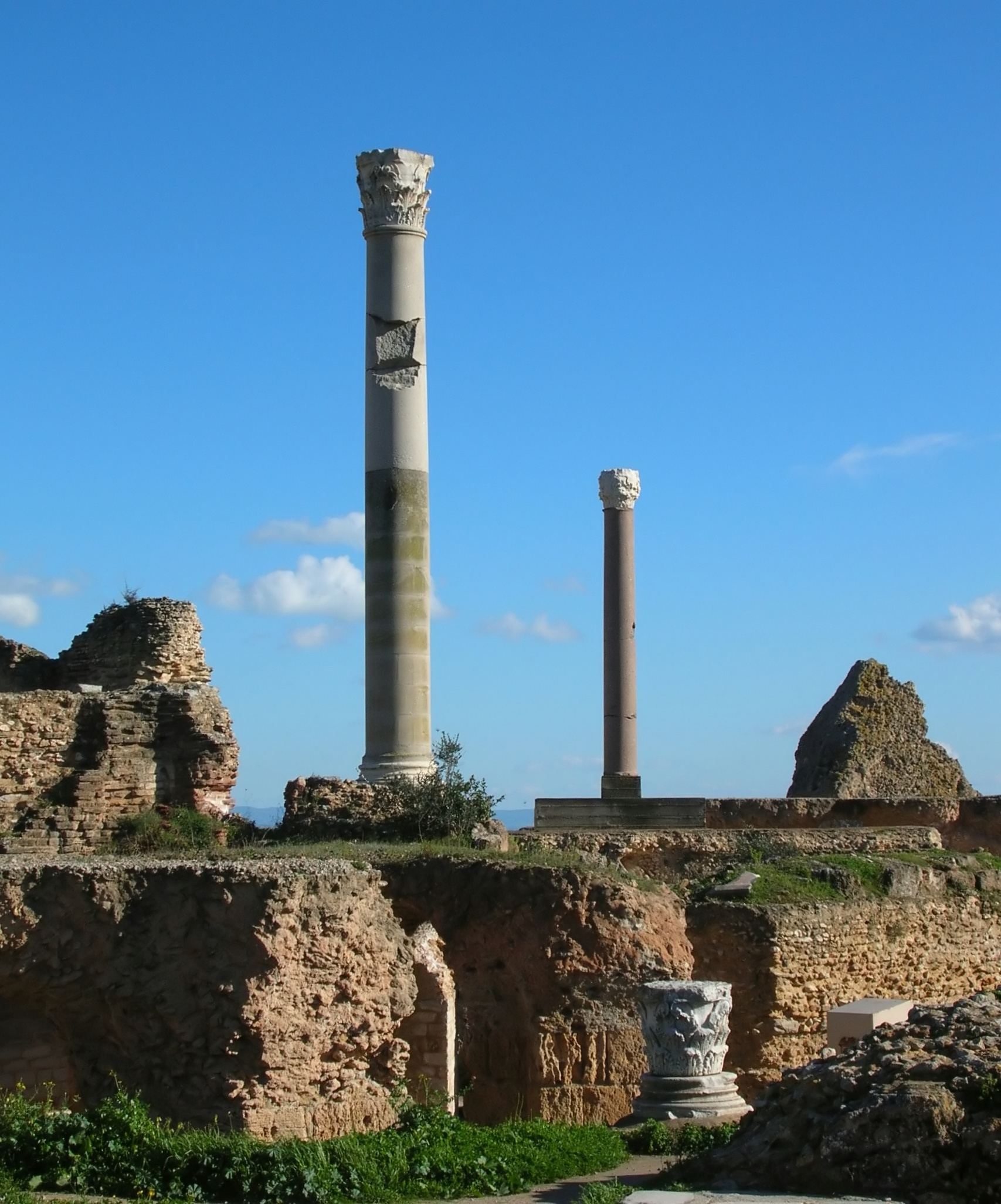 Antonine Baths, Tunis, Tunisia